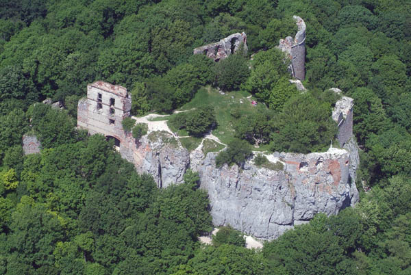 Pajštún Castle, Slovakia, aerial photography